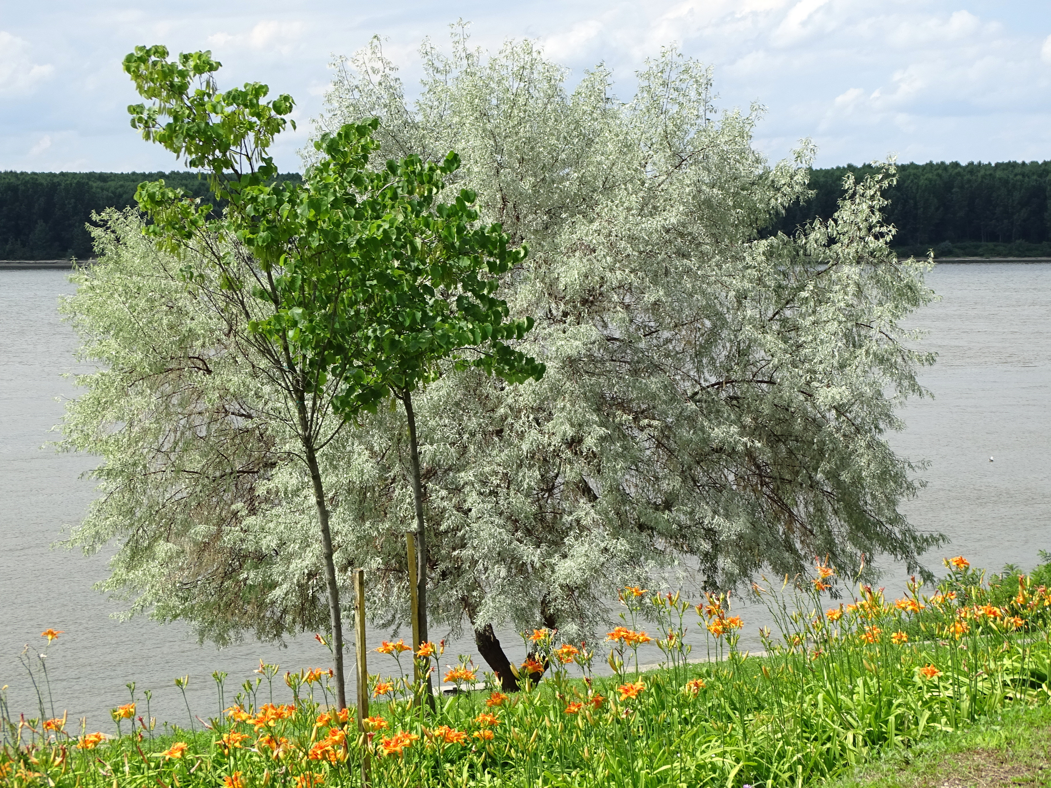 Sylvan Scene in Dunavska Gradina Park - Along the Danube - Silistra - Bulgaria